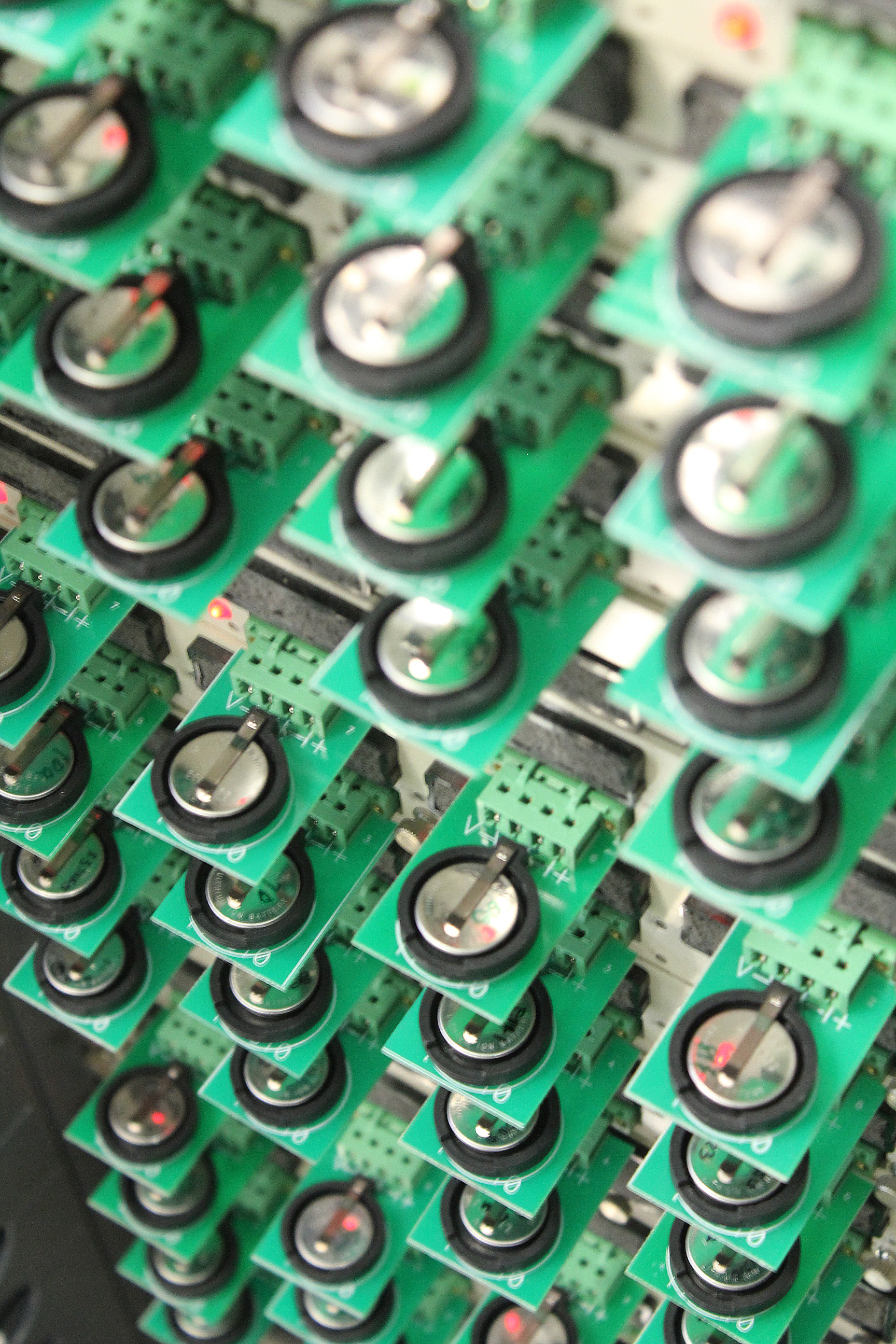 Coin cells being tested on an Arbin Instruments battery testing rig